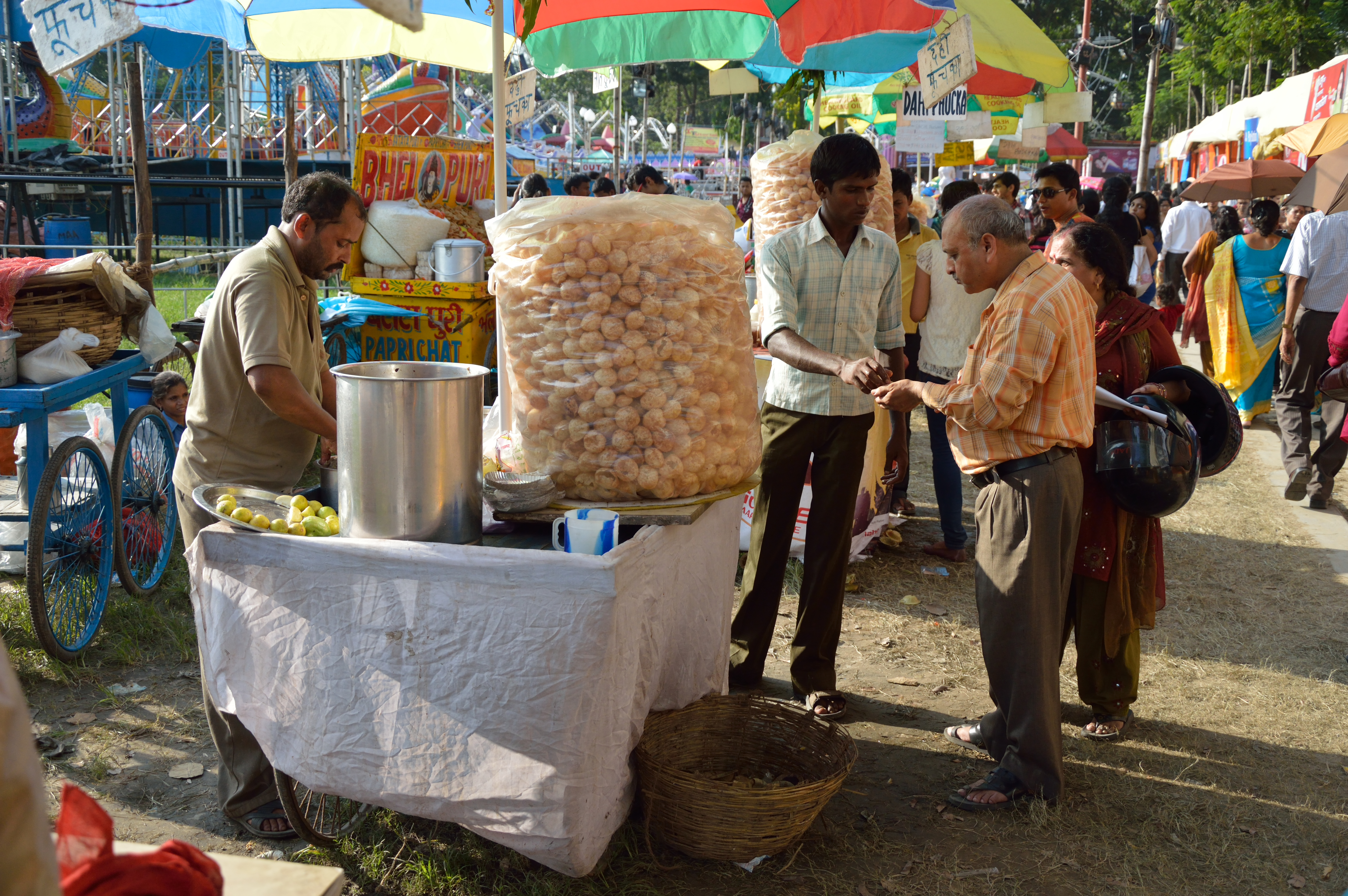 Photographed at greater Kolkata.